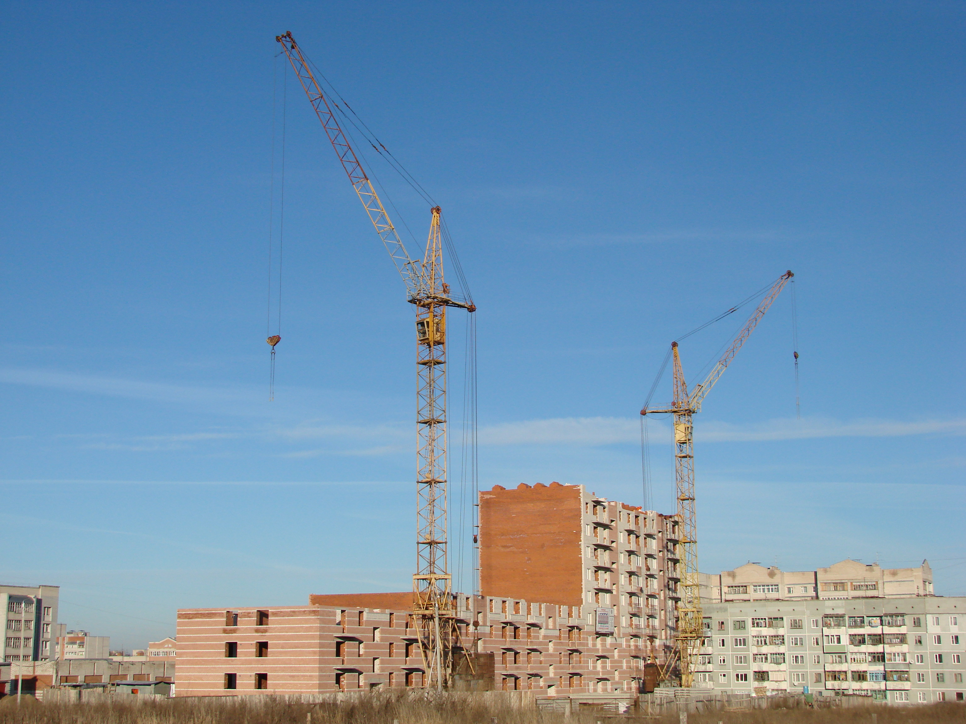 Russia, Vologda